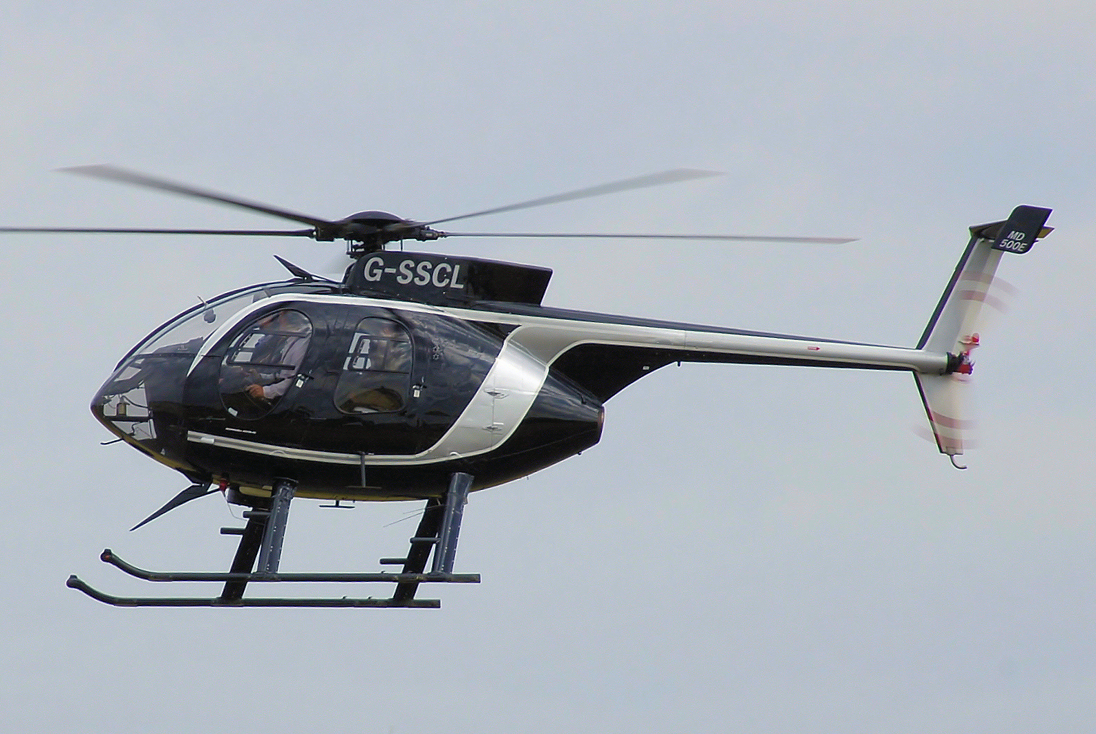 MD Helicopters MD-500E (G-SSCL) (also called Hughes 369E), at Kemble Air Day 2008, Kemble Airport, Gloucestershire, England.